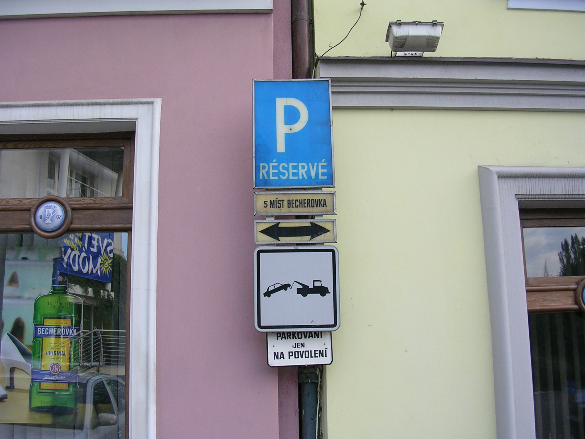 Karlovy Vary, the Czech Republic. Parking place of Becherovka building.